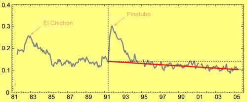 Public Domain - NASA, a US Government Agency Sun-blocking aerosols around the world steadily declined (red line) since the 1991 eruption of Mount Pinatubo, according to satellite estimates. The decline appears to have brought an end to the "global dimming" earlier in the century. Credit: Michael Mishchenko, NASA